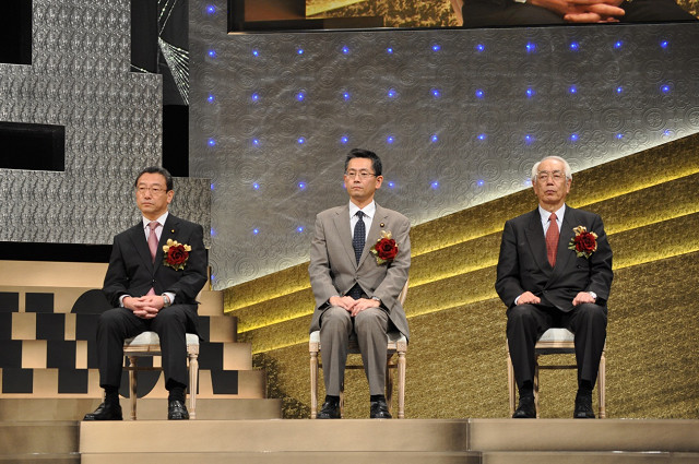 Hiroyuki Nagahama, Deputy Chief Cabinet Secretary, Takashi Morita, Parliamentary Secretary for Internal Affairs and Communications, and Masayuki Matsumoto, President of Japan Broadcasting Corporation, attended the Annual Convention of the National Association of Commercial Broadcasters in Japan at Tokyo International Forum in Chiyoda Ward, Tōkyō Metropolis on November 1, 2011.